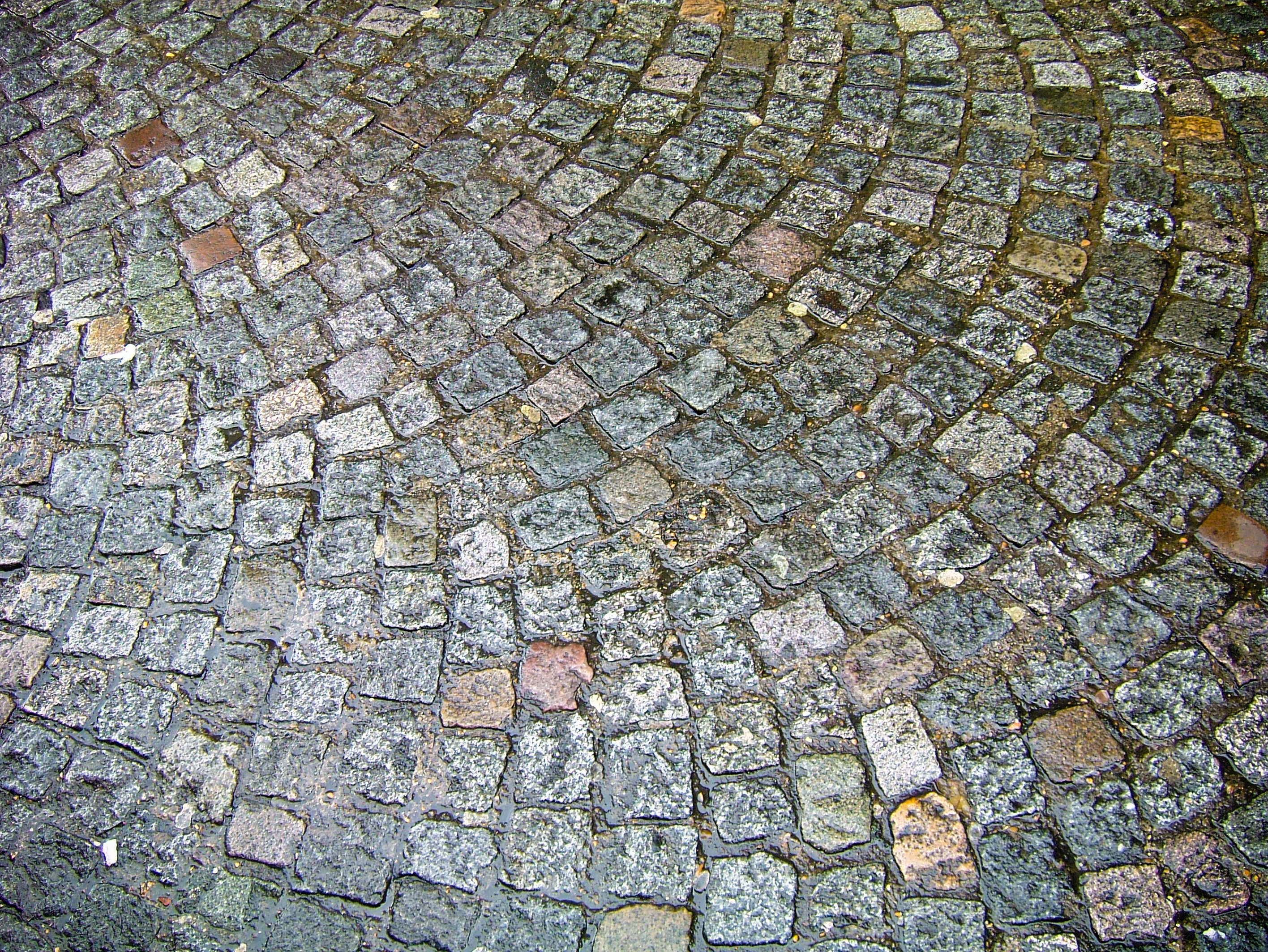 Cobblestones in Paris